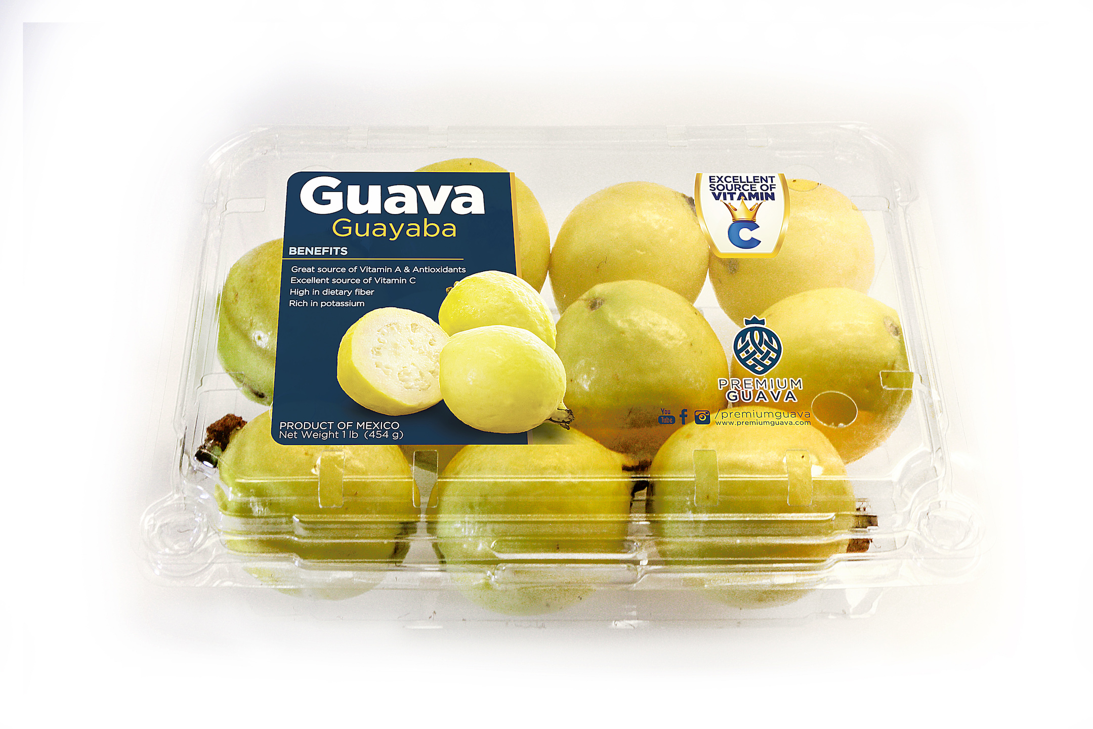 Irradiated Guava from Spring Valley Fruits